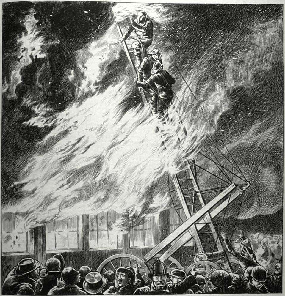 The Skinner Ladder, Montreal firemen combating the Great St. Urbain Street Fire of April 1877; seven of whom died that tragic day.